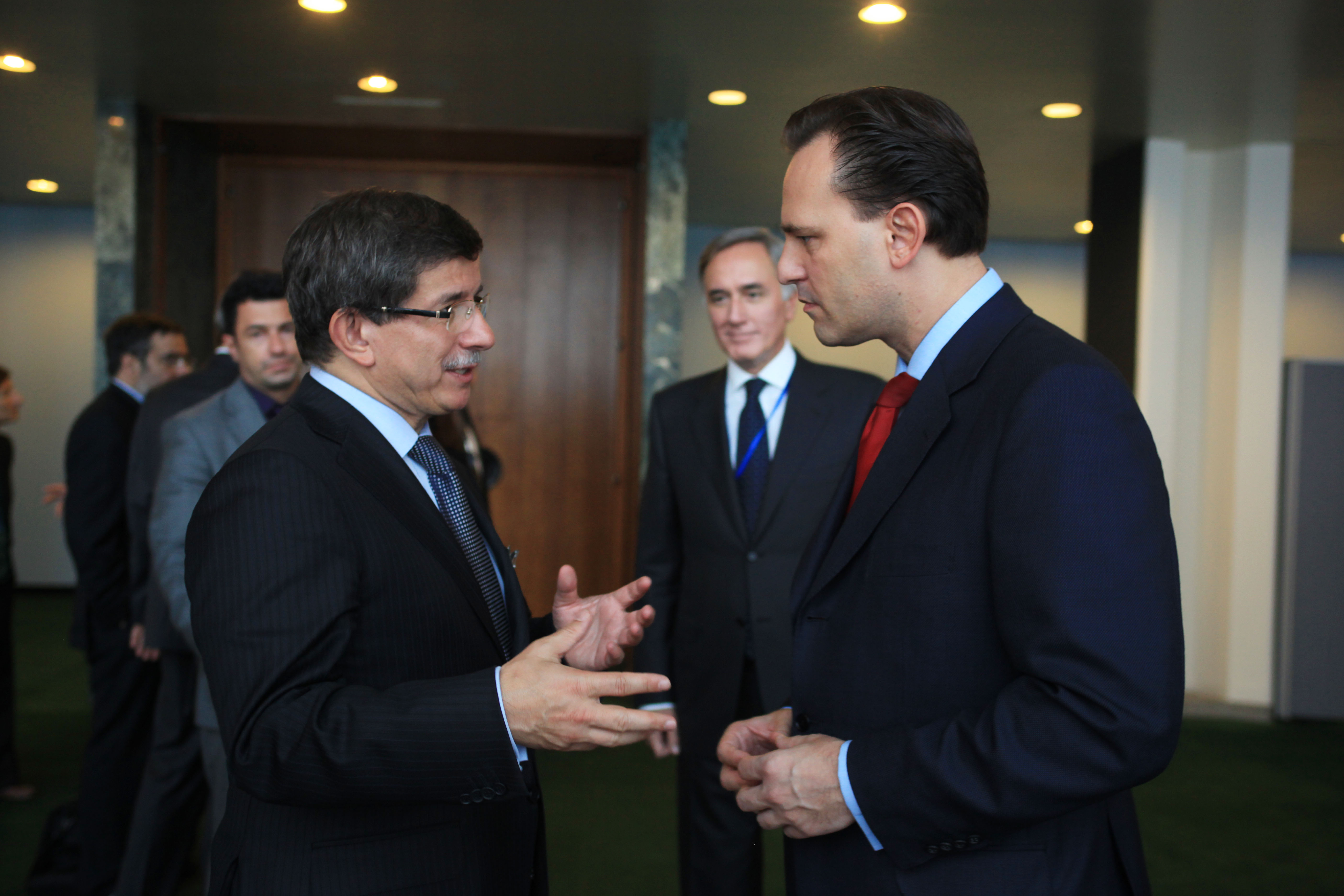 Turkish Foreign Minister Ahmet Davutoglu speaks with Greek Foreign Minister Dimitris Droutsas at the 65th General Assembly of the United Nations.